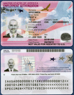 Employment Authorization Document (EAD) 2017 version